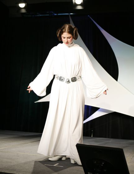 Photo by Scott Ruether. Read more at the Official Celebration IV blog. Costumes at Star Wars Celebration IV in 2007 at the Los Angeles Convention Center in Los Angeles.